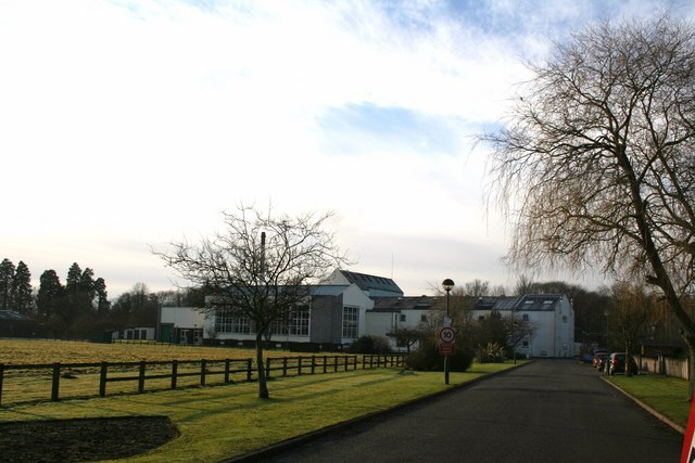 Teaninich Distillery Owned now by Diageo ,Teaninich Distillery opened originally in 1817.